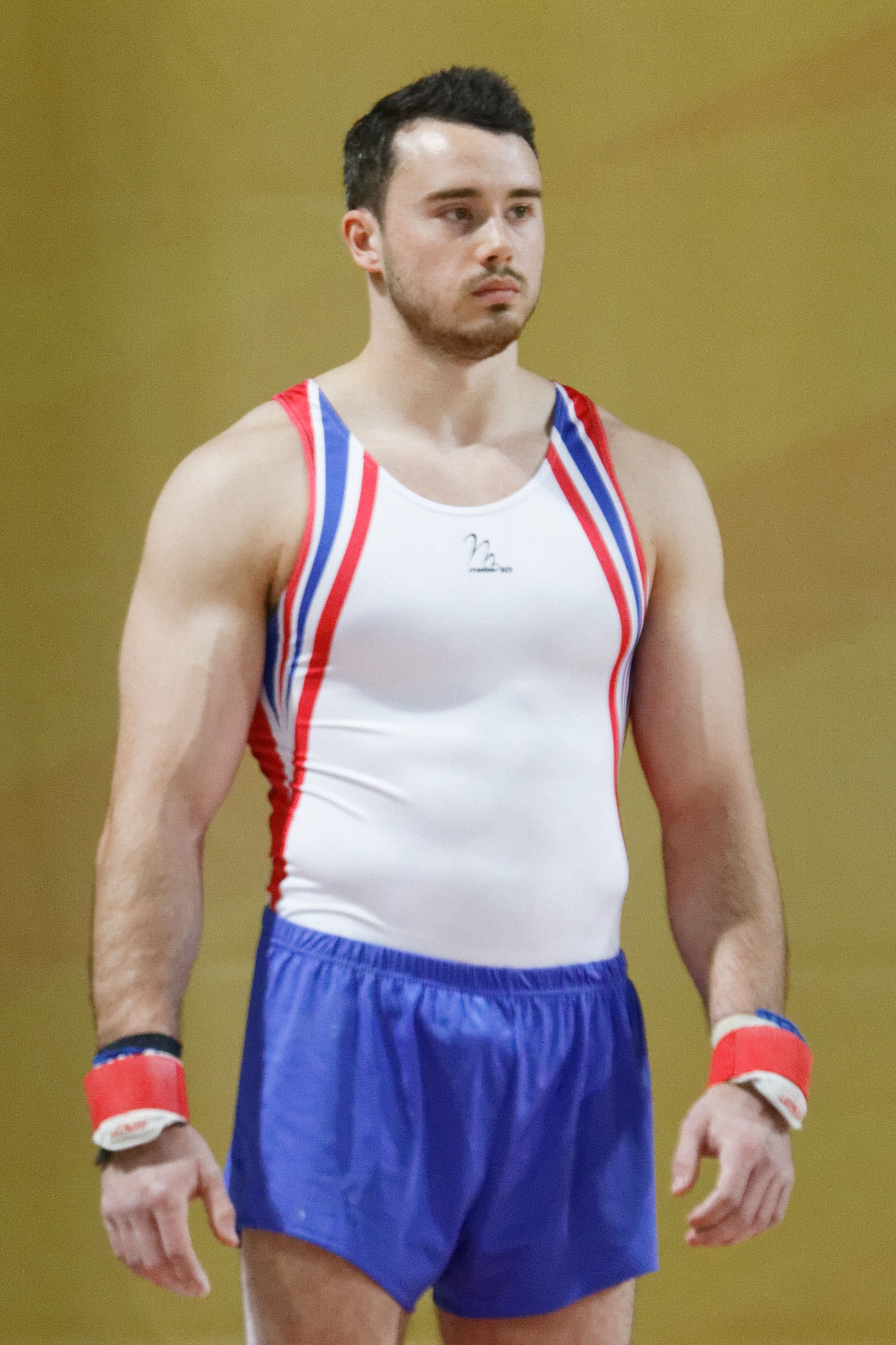 2015 European Artistic Gymnastics Championships. Men's Vault Final.